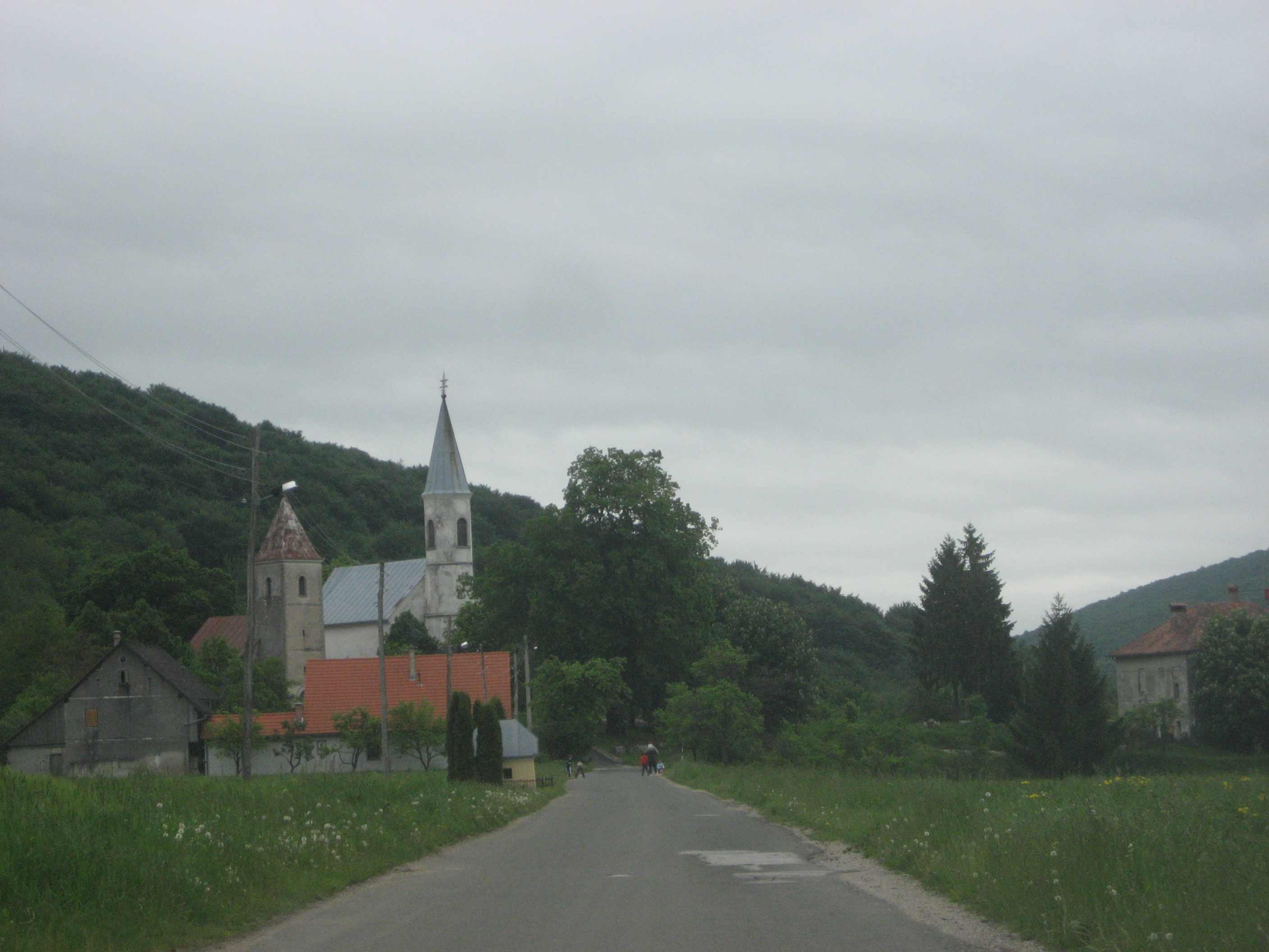 Sosice, Zumberak, Croatia